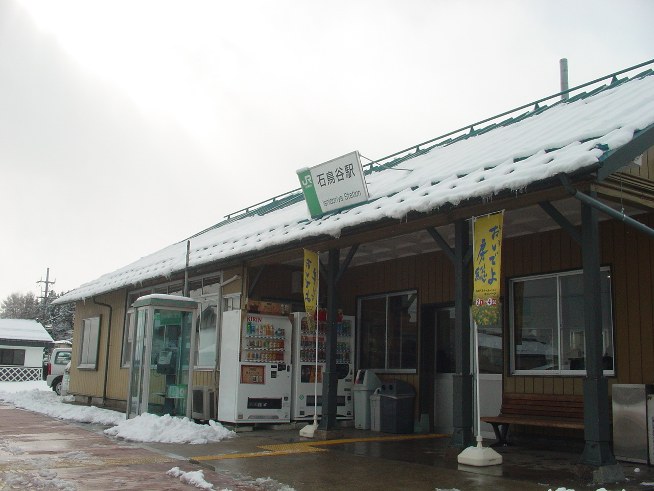 Ishidoriya Station